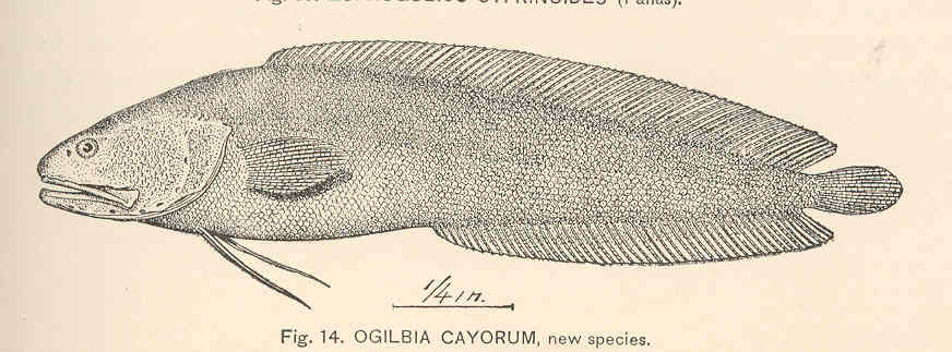 Ogilbia cayorum, new species Subject: Ogilbia Tag: Fish